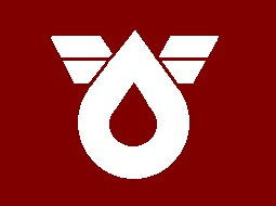 Flag of Shioya Tochigi